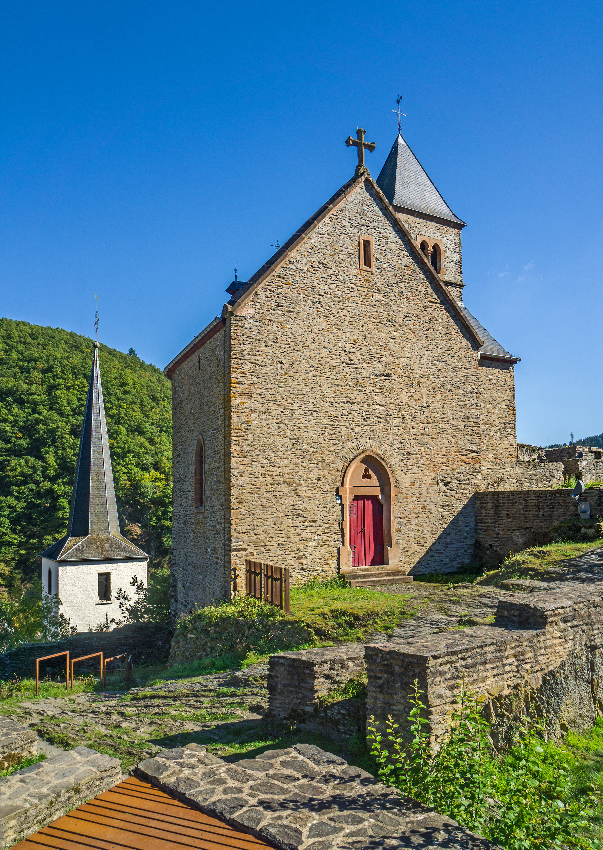 Chapel of the castle in Esch-sur-Sûre